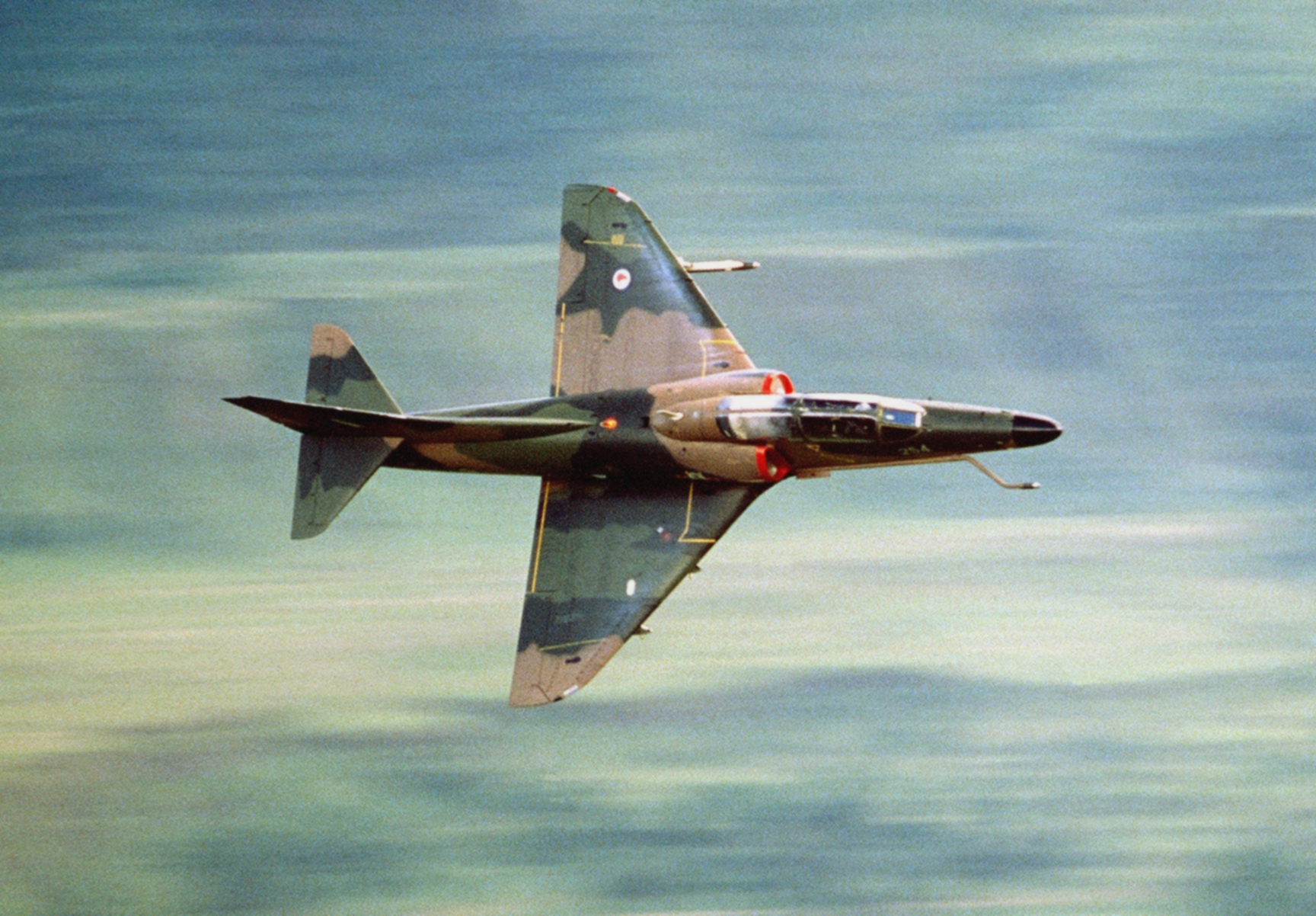 A McDonnell Douglas TA-4K Skyhawk trainer aircraft of No. 75 Squadron, Royal New Zealand Air Force, evades simulated anti-aircraft missiles at the Crow Valley Electronic Warfare Tactical Range (Philippines) during Exercise COPE THUNDER '84-7.